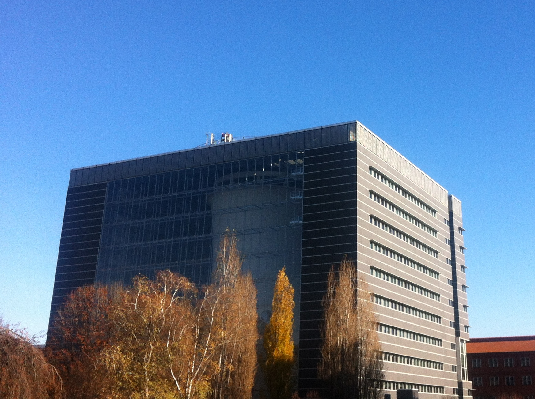 Pirelli headquarters in Milan's Bicocca district